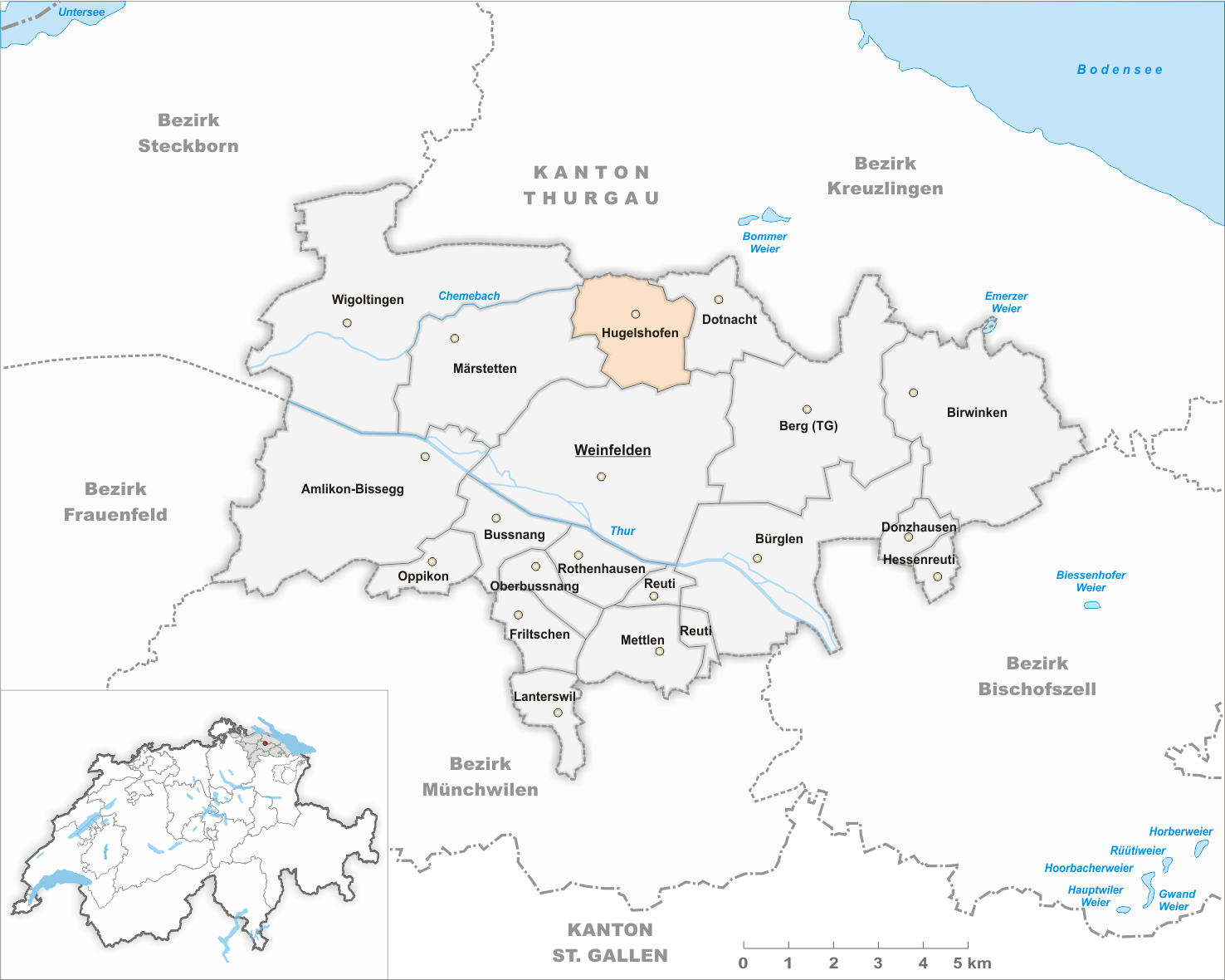 Municipality Hugelshofen